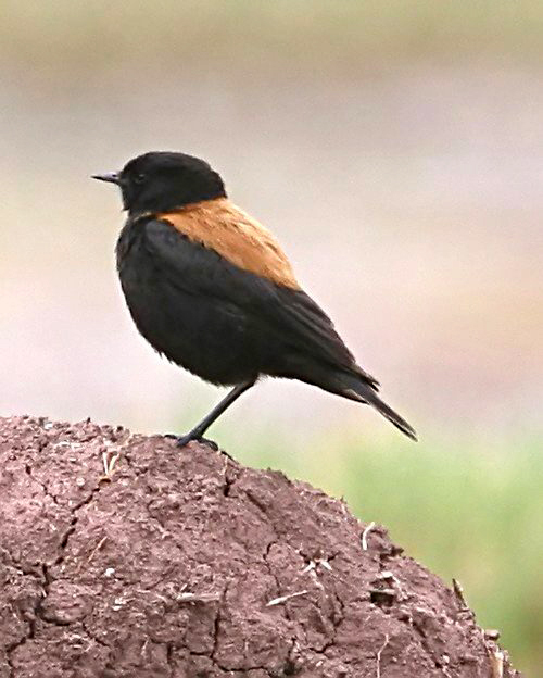 Andean Negrito (Lessonia oreas) on the ground